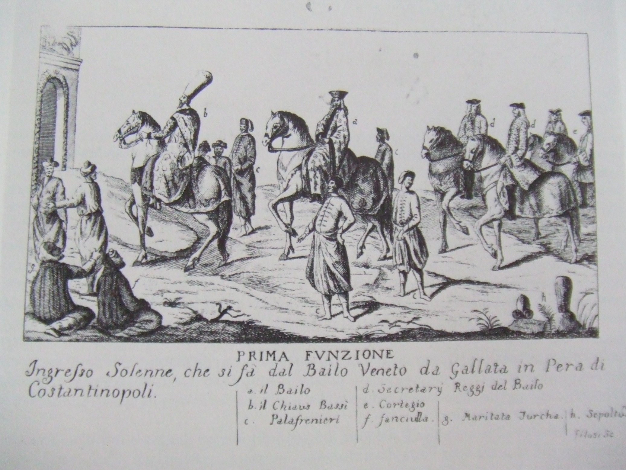 Solemn entrance of the new bailo (the Venetian ambassador to Constantinople) and his retinue, and his progress from Galata to Pera, where the Venetian embassy was located. Engraving from c. 1700.